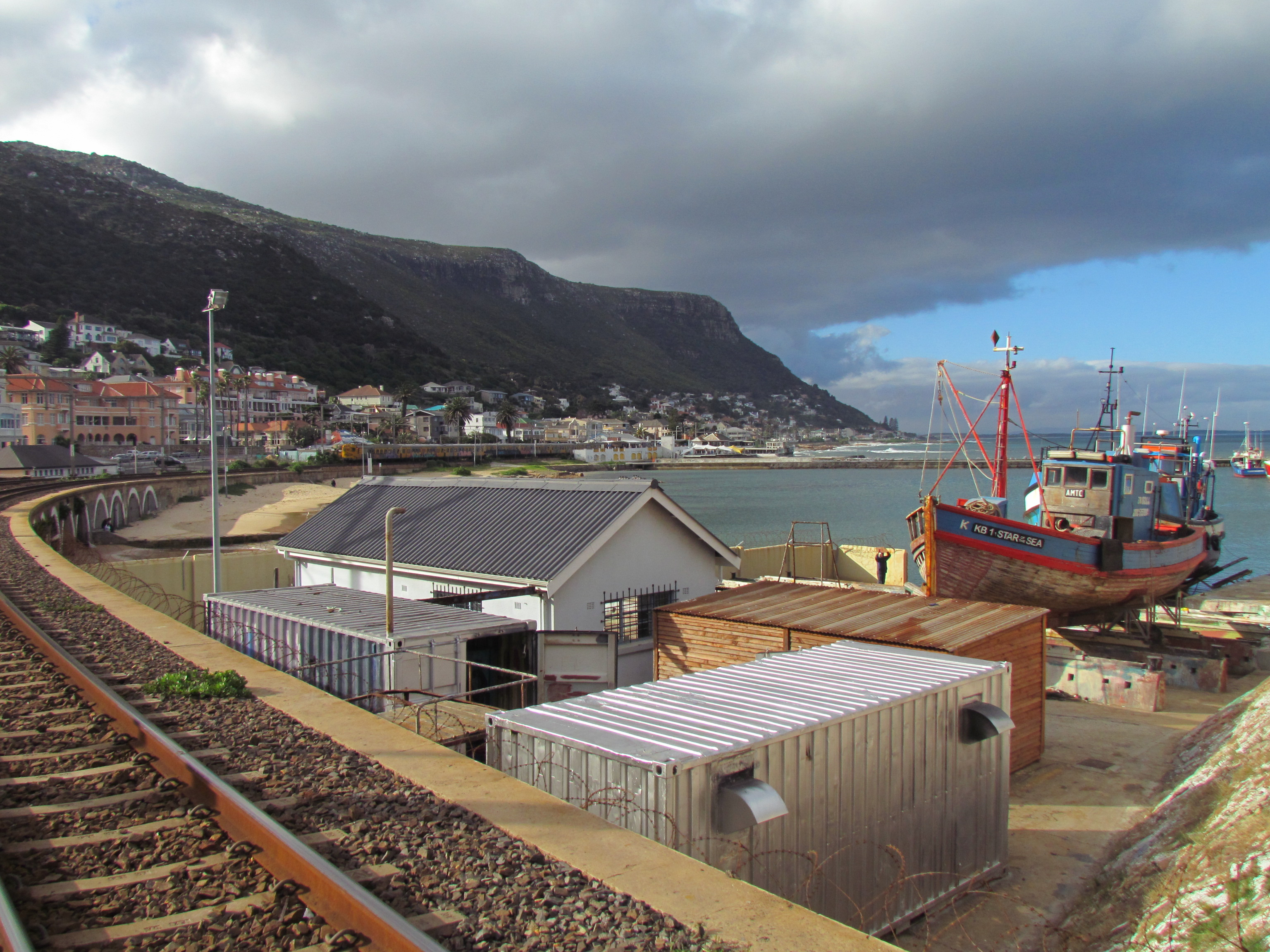 Kalk Bay